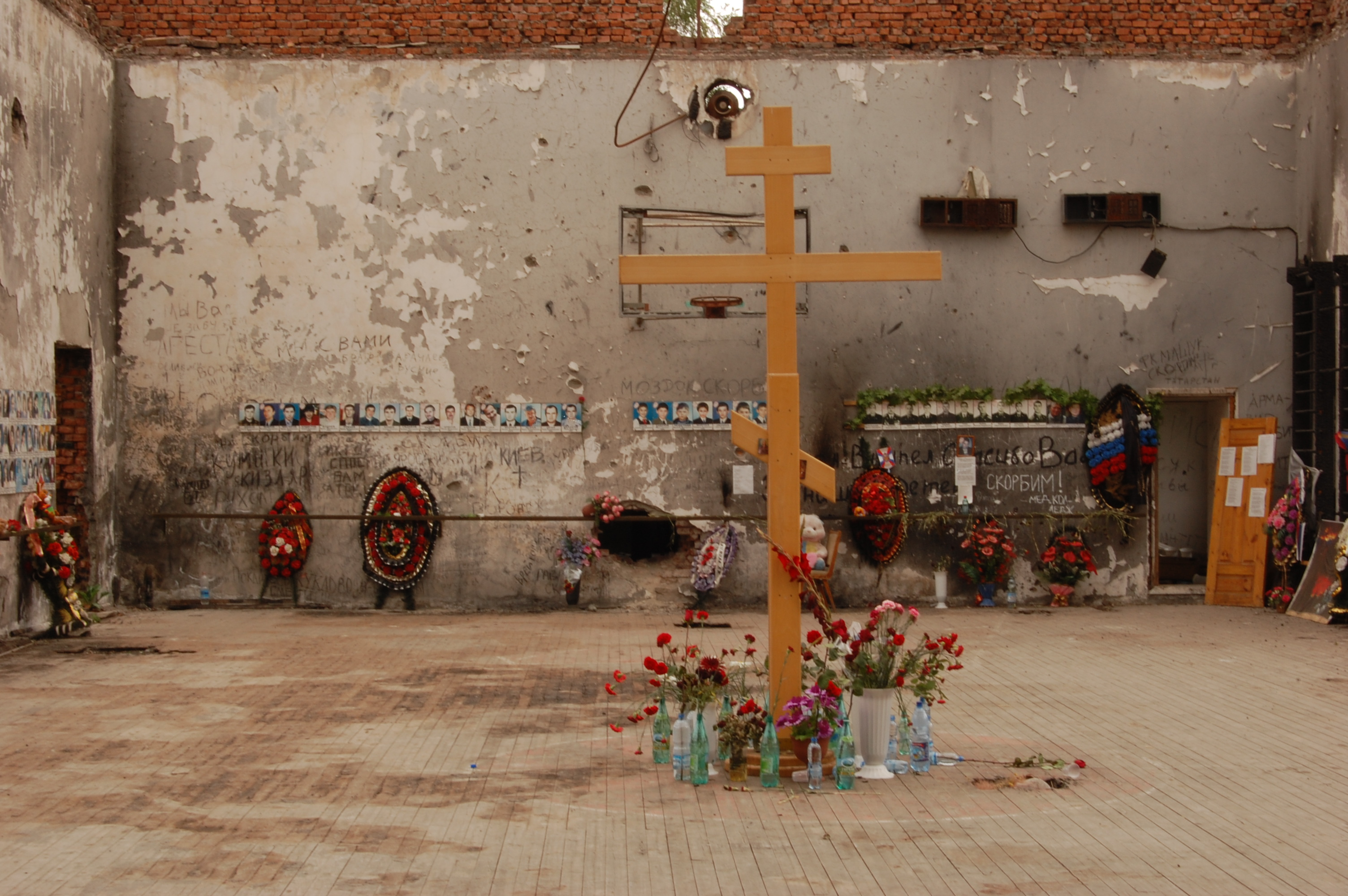 Orthodox Christian cross in the gym of school # 1 in Beslan